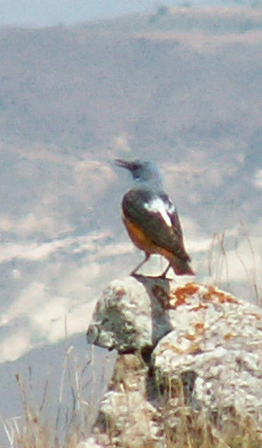 Description=rufous tailed Rock thrush (Monticola saxatilis en ), seen on Bozdağı plateau in Cappadocia